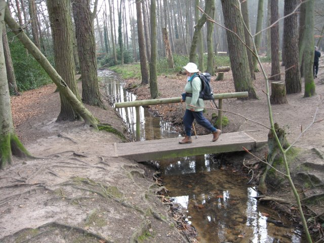 Footbridge , Upton Heath A handy footbridge among the trees, on the edge of Upton Heath, where it meets the houses of Creekmoor.